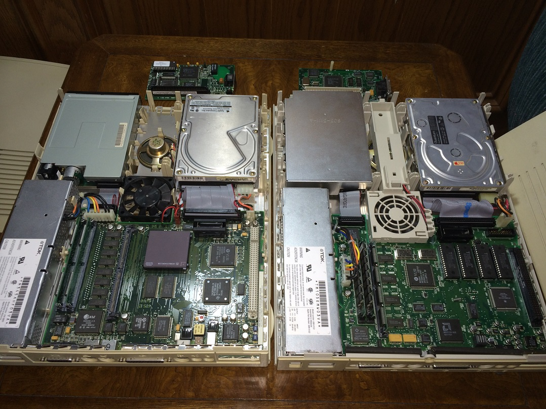 The LC family (LC and Q605) open